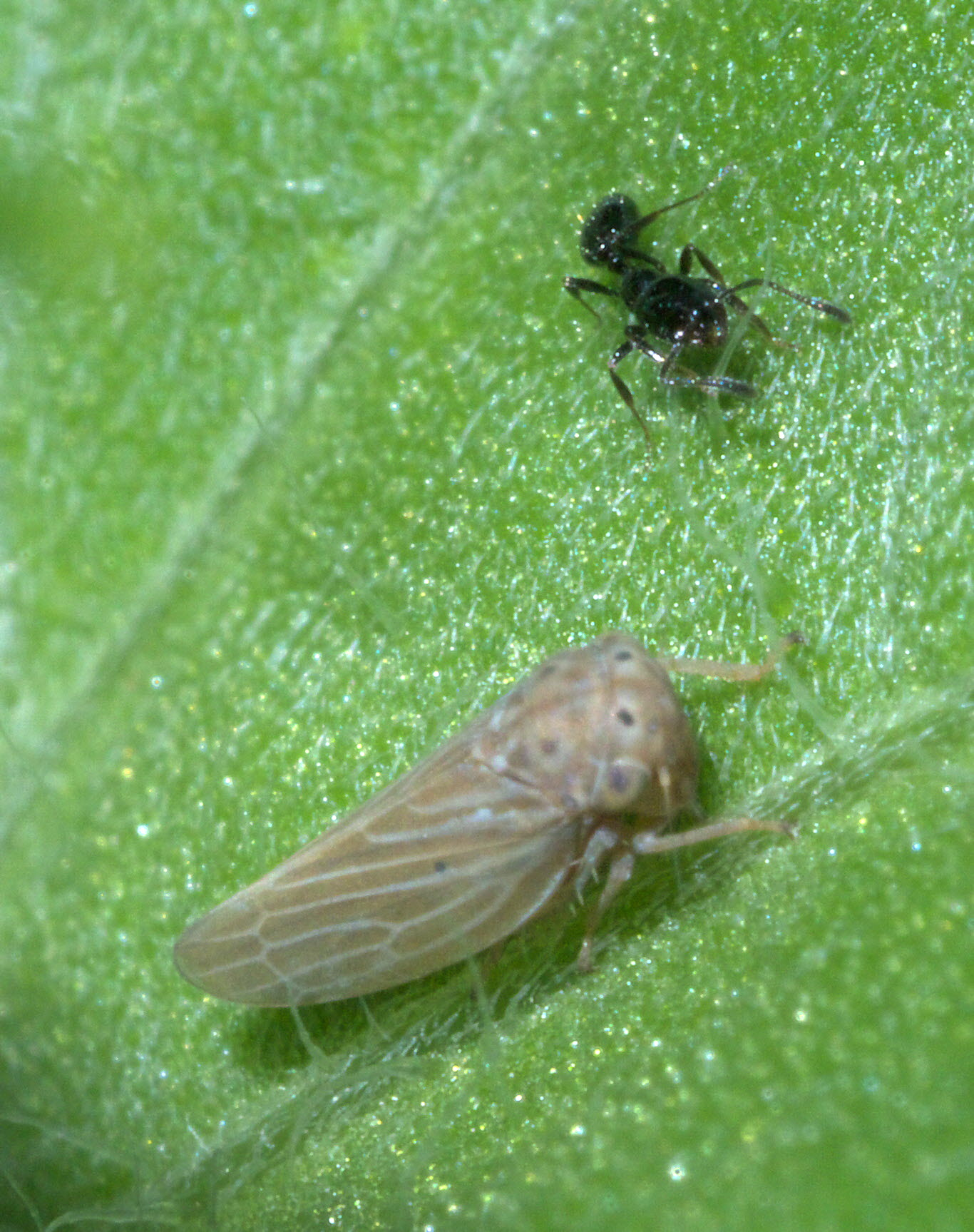 Agallia quadripunctata, Four-spotted Clover Leafhopper, with an ant. Might be Agallia constricta., Size: about 2.6 mm, ID Confidence: 80